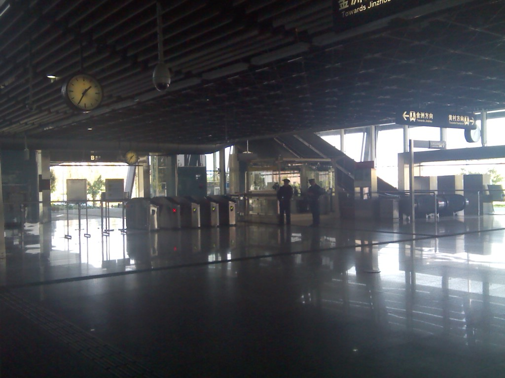 东涌站站厅